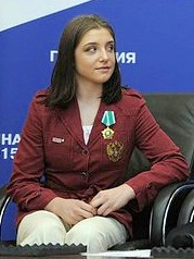 Aliya Mustafina